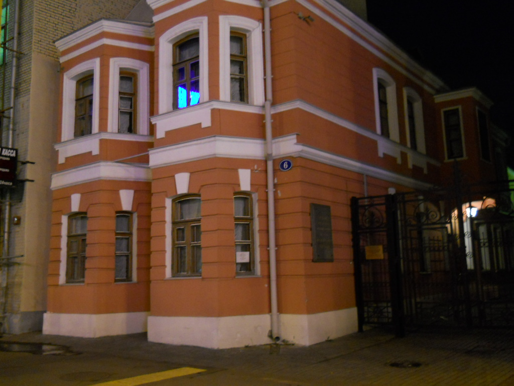 Moscow, Garden Ring, Sadovaya-Kudrinskaya Street, 6, A.Chekhov museum by night.